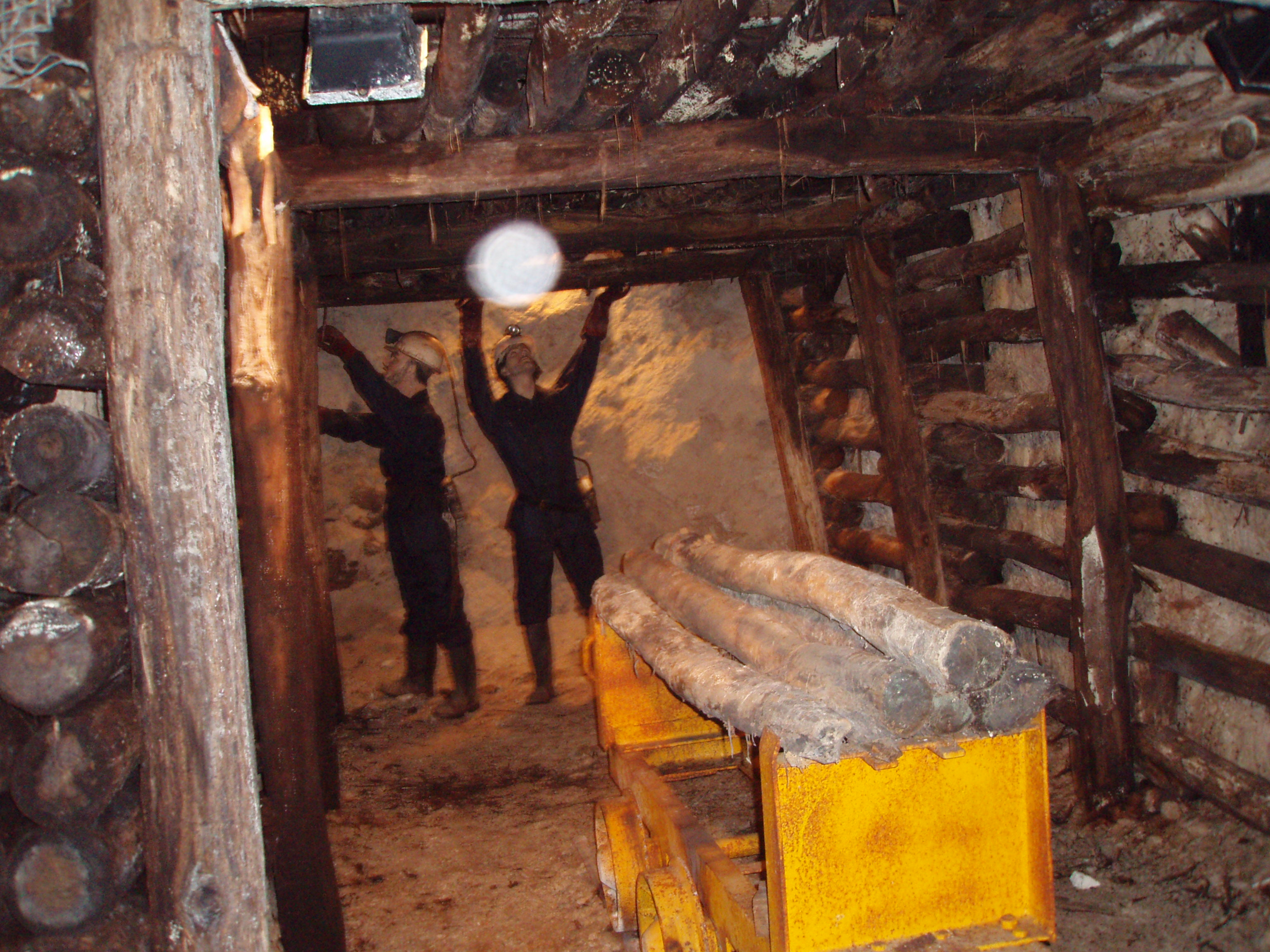 Fokis Mining Park